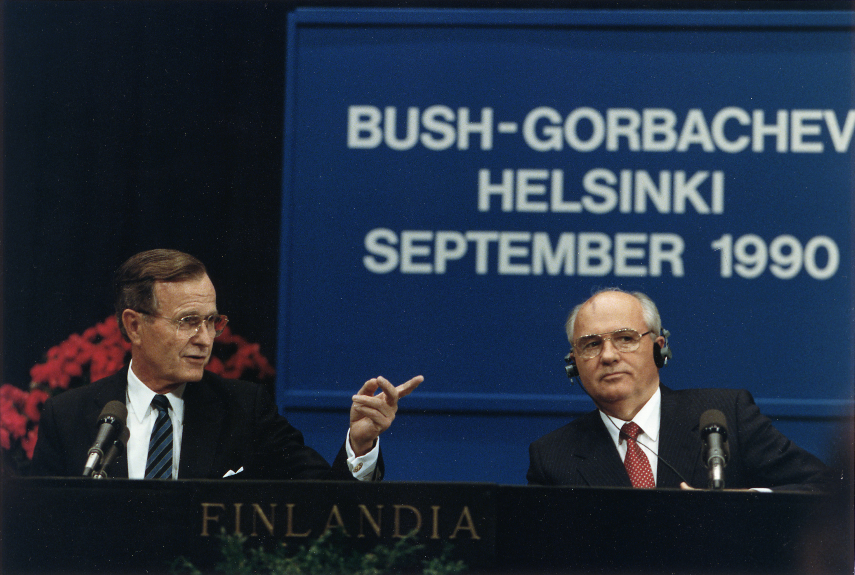 The US President George H. W. Bush and Soviet Predident Mikhail Gorbachev hold a press conference at the Helsinki Summit, Finland on September 9, 1990.